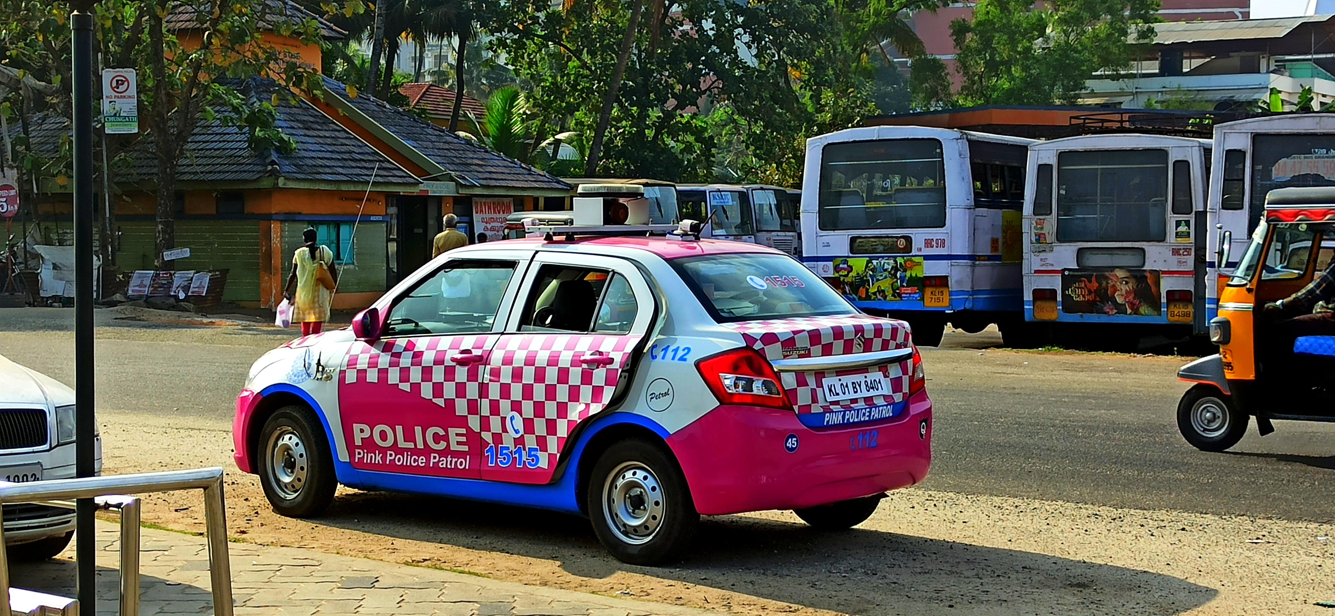 Several teams of Pink Patrol is in Kollam city to ensure the safety of women in city area.